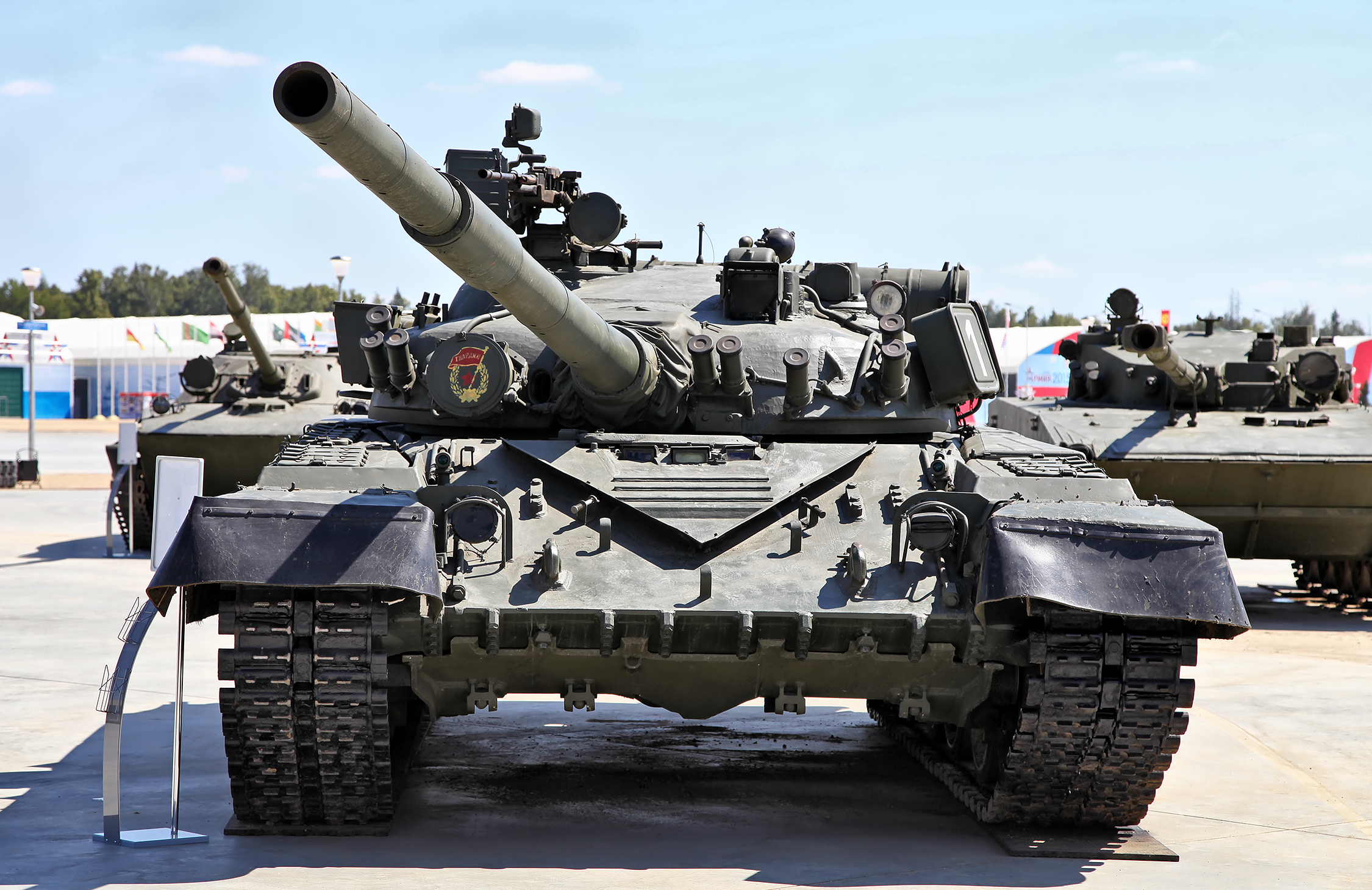 Object 219R T-80B